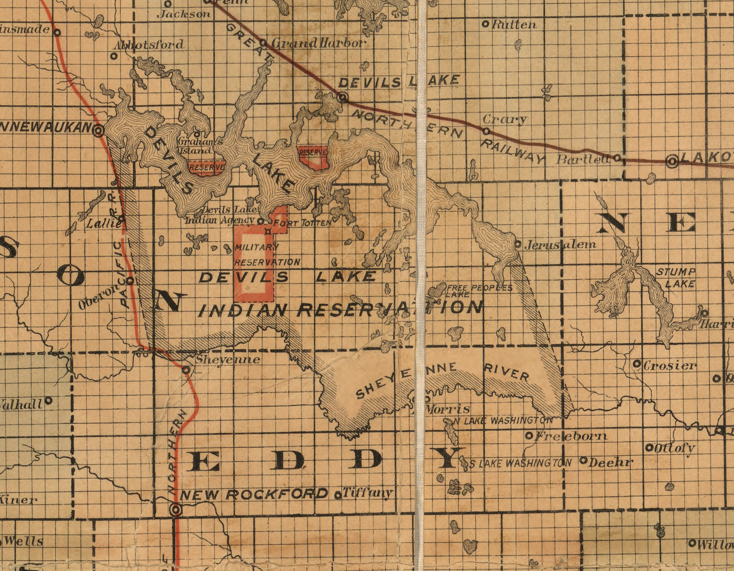 Cropped portion of: Sectional map of the state of North Dakota published by authority of the commissioners of railroads under the direction of the governor; drawn and compiled from official maps of the General Land Office and other authentic sources.